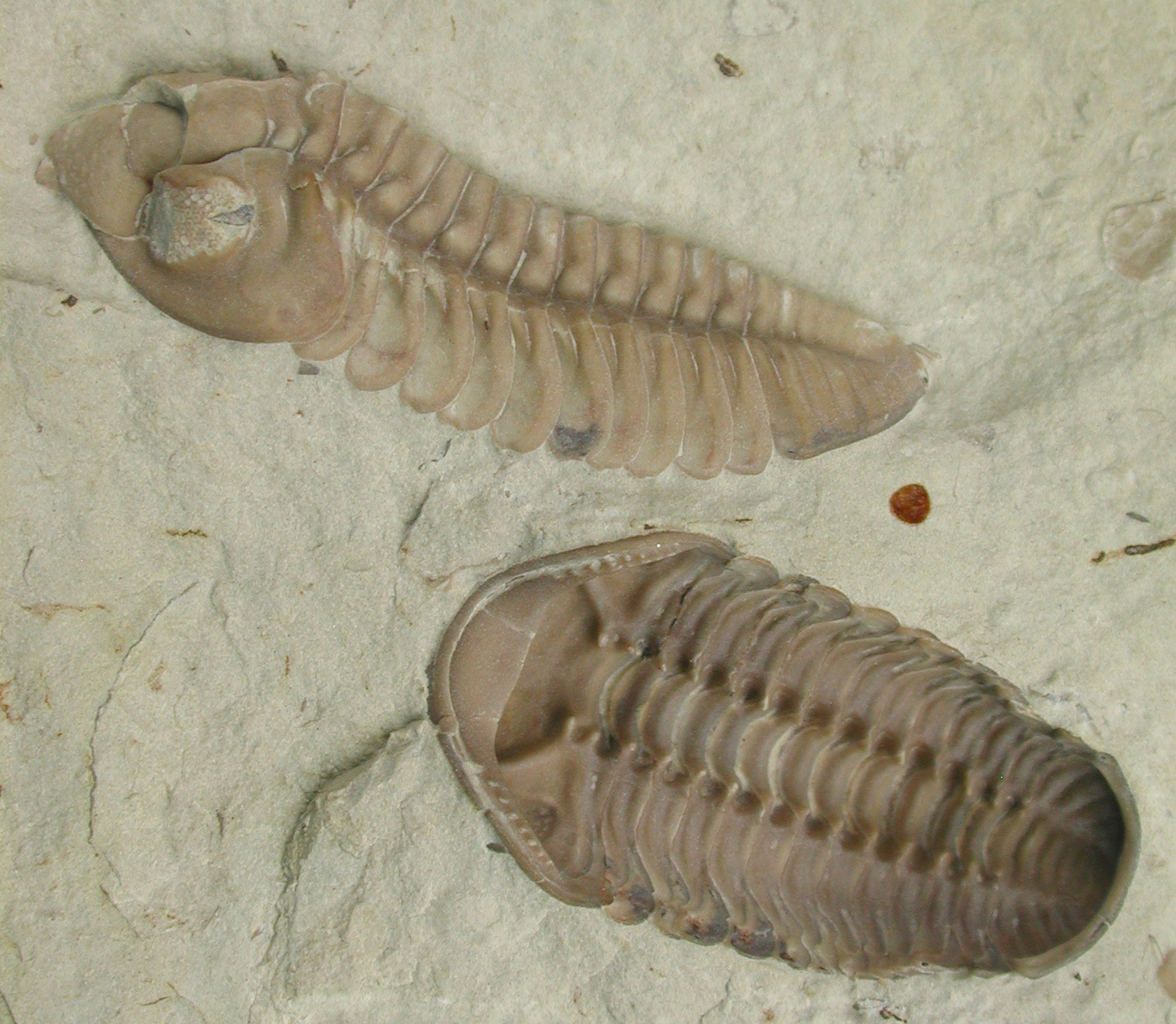 2 Kainops invius specimens: 1 lateral, 1 ventral. Unusually, specimen prepared from below to show the internal surface of the exoskeleton, including hypostome, doublure & apodemes. Cravat Member, Bois d'Arc formation, Lower Devonian (Held.) age. Location: Clarita, Coal Co., Oklahoma, U.S.A.